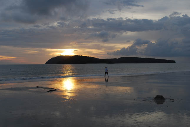 This picture was taken on Day 1 of my Langkawi trip. Sunset at Cenang Island (Time around 7.40pm).